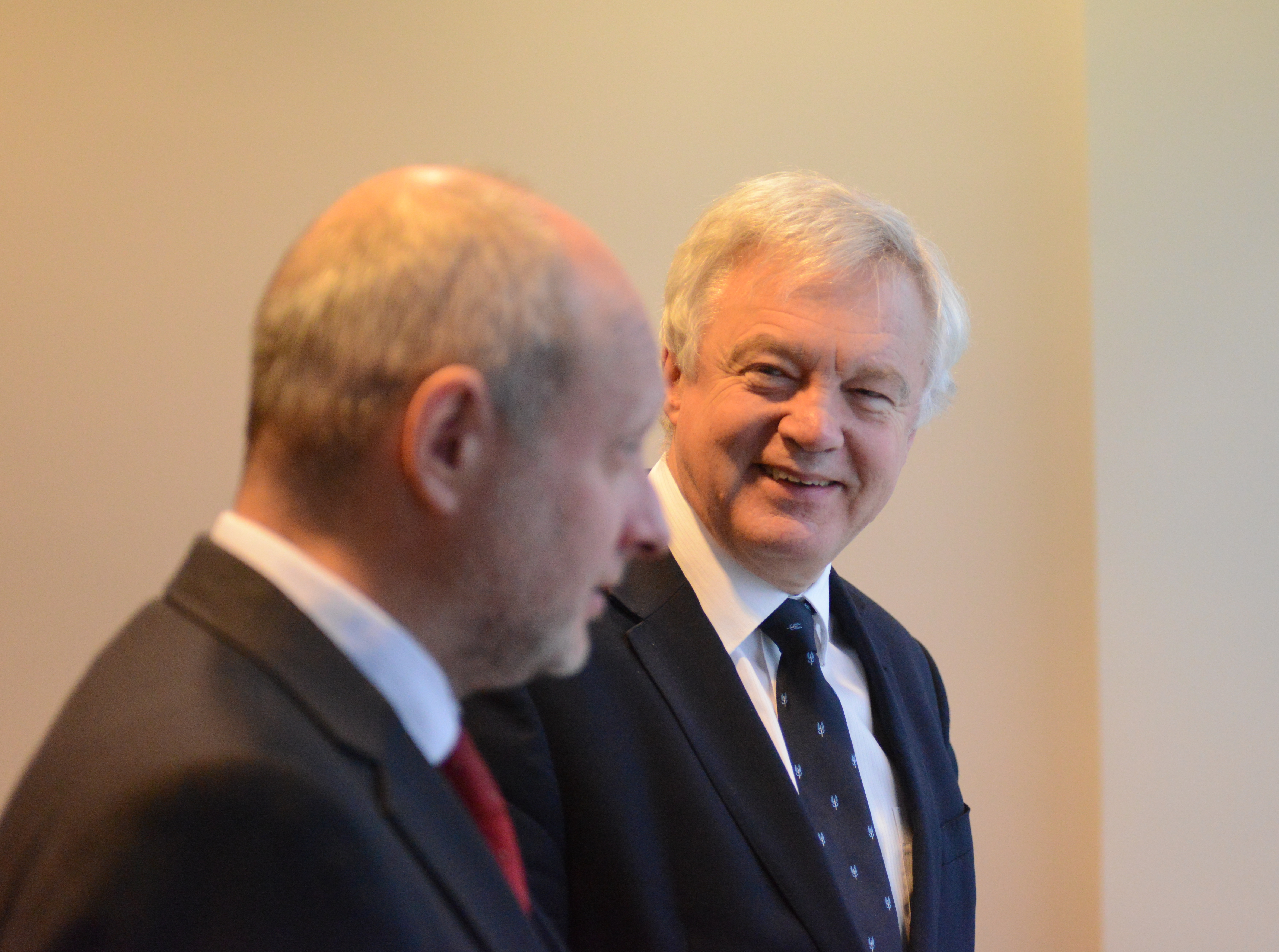 Matti Maasikas meets with David Davis, Secretary of State for Exiting the European Union